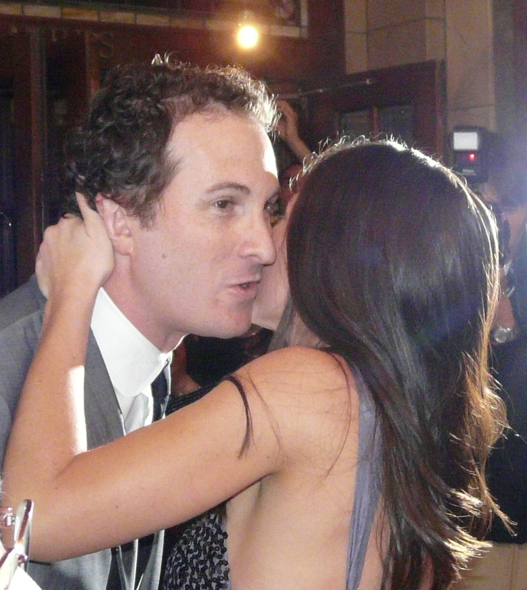 Darren Aronofsky getting a smooch from Marisa Tomei in front of the Elgin Theatre at the tiff premiere of The Wrestler Check out even more great Tiff Photos and Videos at